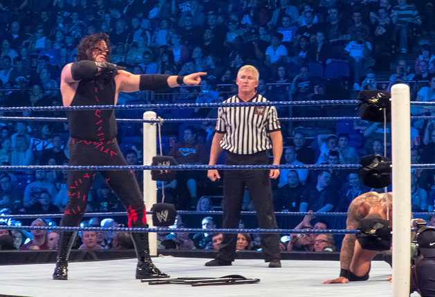 Kane in North Greenwich, London, England